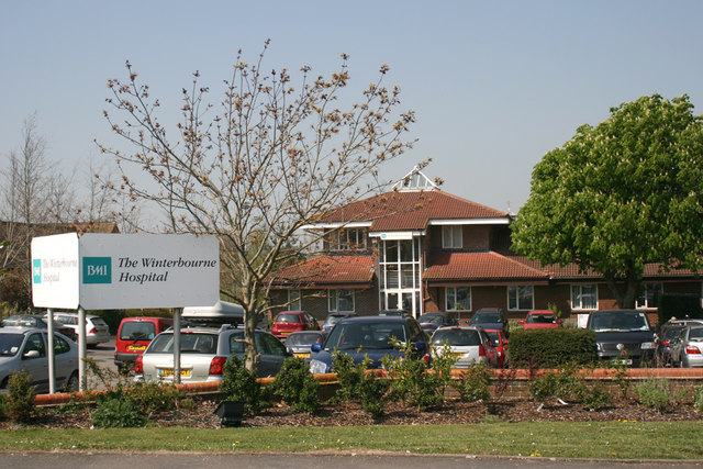 The Winterbourne Hospital The Winterbourne Hospital is a private hospital in the BMI Healthcare group.